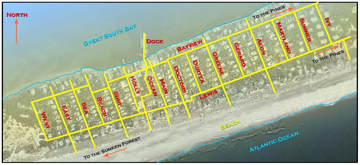 JPG version of Cherry Grove (New York) map. Author is uploader. Created using Draw, export to PDF, convert to JPG using Paint. Map including the names of the two major walks (Bayview and Lewis), which are generally parallel to the beach, and sixteen minor walks (Ivy, Sumner, Maryland, Aeon, Gerard, Greene, Duryea, Doctors, Main, Ocean, Holly, Surf, Beach, Sea, East and West), which are generally perpendicular to the beach. (South Walk (not shown) is parallel to the beach and extends between Surf and Beach Walks.) JPG version of Cherry Grove (New York) map. Author is uploader. Created using Draw, export to PDF, convert to JPG using Paint. Map including the names of the two major walks (Bayview and Lewis), which are generally parallel to the beach, and sixteen minor walks (Ivy, Sumner, Maryland, Aeon, Gerard, Greene, Duryea, Doctors, Main, Ocean, Holly, Surf, Beach, Sea, East and West), which are generally perpendicular to the beach. (South Walk (not shown) is parallel to the beach and extends between Surf and Beach Walks.)